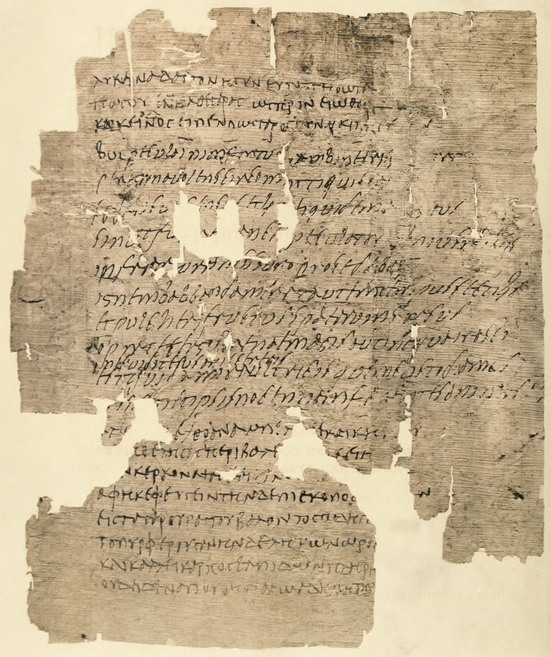 A third- or fourth-century papyrus of Babrius with Latin translation